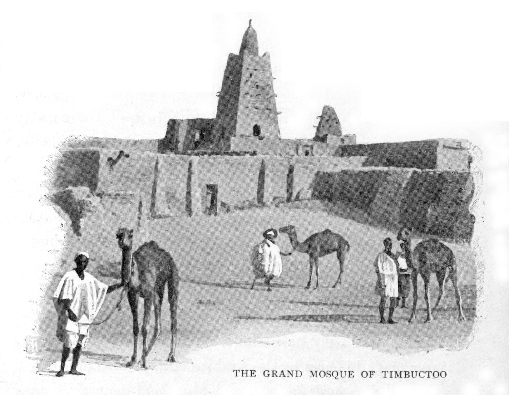 The Grand Mosque or Djingareyber Mosque in Timbuktu, Mali.